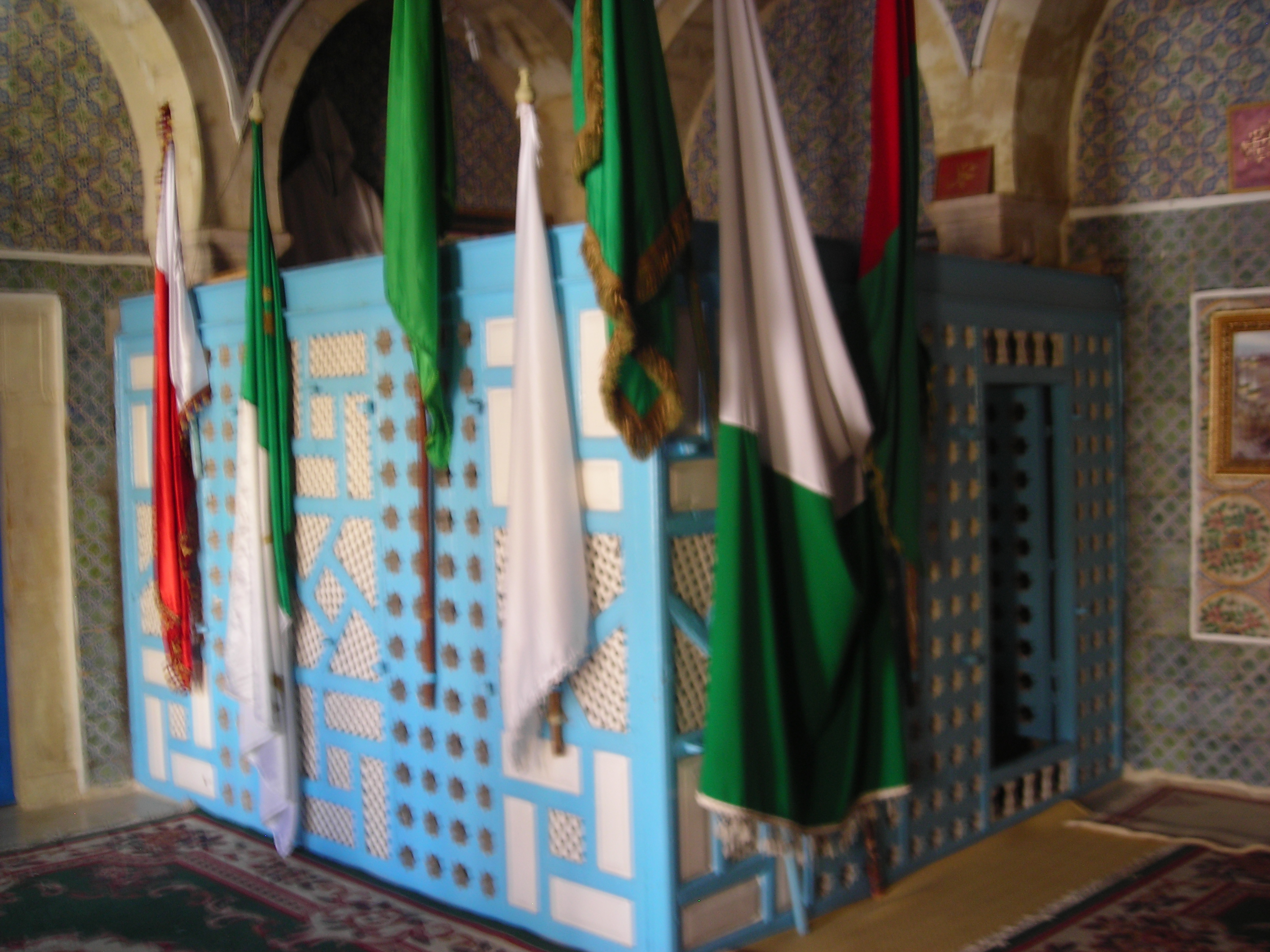 Zaouia of Imam Mezri